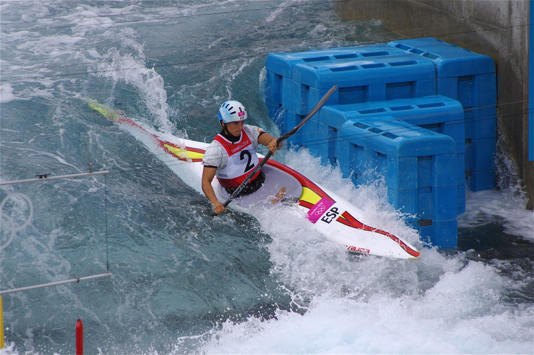 Canoeing at the 2012 Summer Olympics – Women's slalom K-1 Maialen Chourraut (ESP)